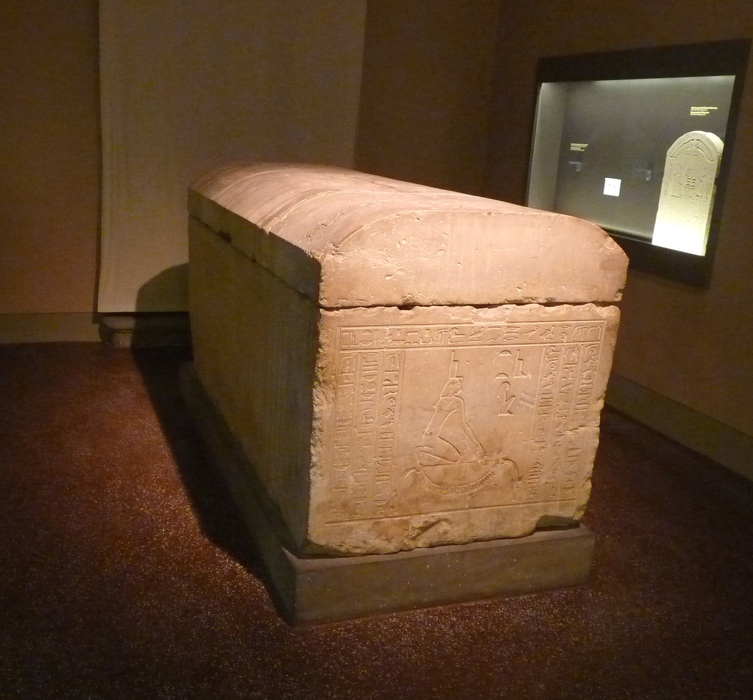 Limestone sarcophagus of Bakenranef, vizier under Psametek I. From his tomb (Saqqara). Reign of Psametek I, 26th dynasty, Late Period. Florence, Museo archeologico nazionale.